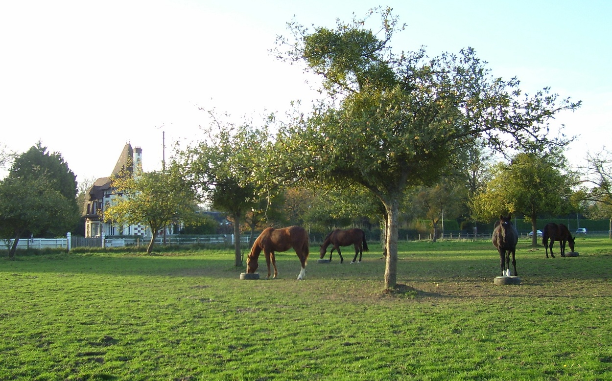 Horses in Bazoques (France) at the departement road D 834 with a manor house in the background.